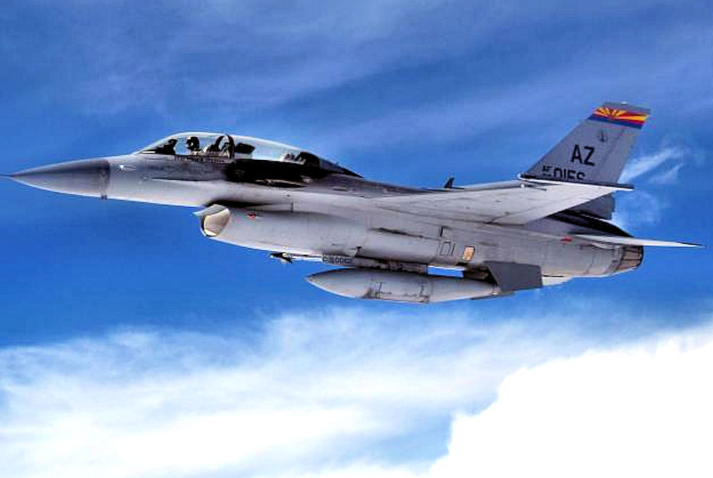 USAF F-16D block 42 #88-0156 flies alongside a KC-135 Stratotanker during an incentive flight for students in the Civil Air Patrol and Aviation Careers Education Camp in Phoenix on August 1st, 2006. The camp was held in conjunction with the Tuskeegee Airmen Convention. The aircraft are with the 152nd FS. [USAF photo by TSgt. Joe Zuccaro]